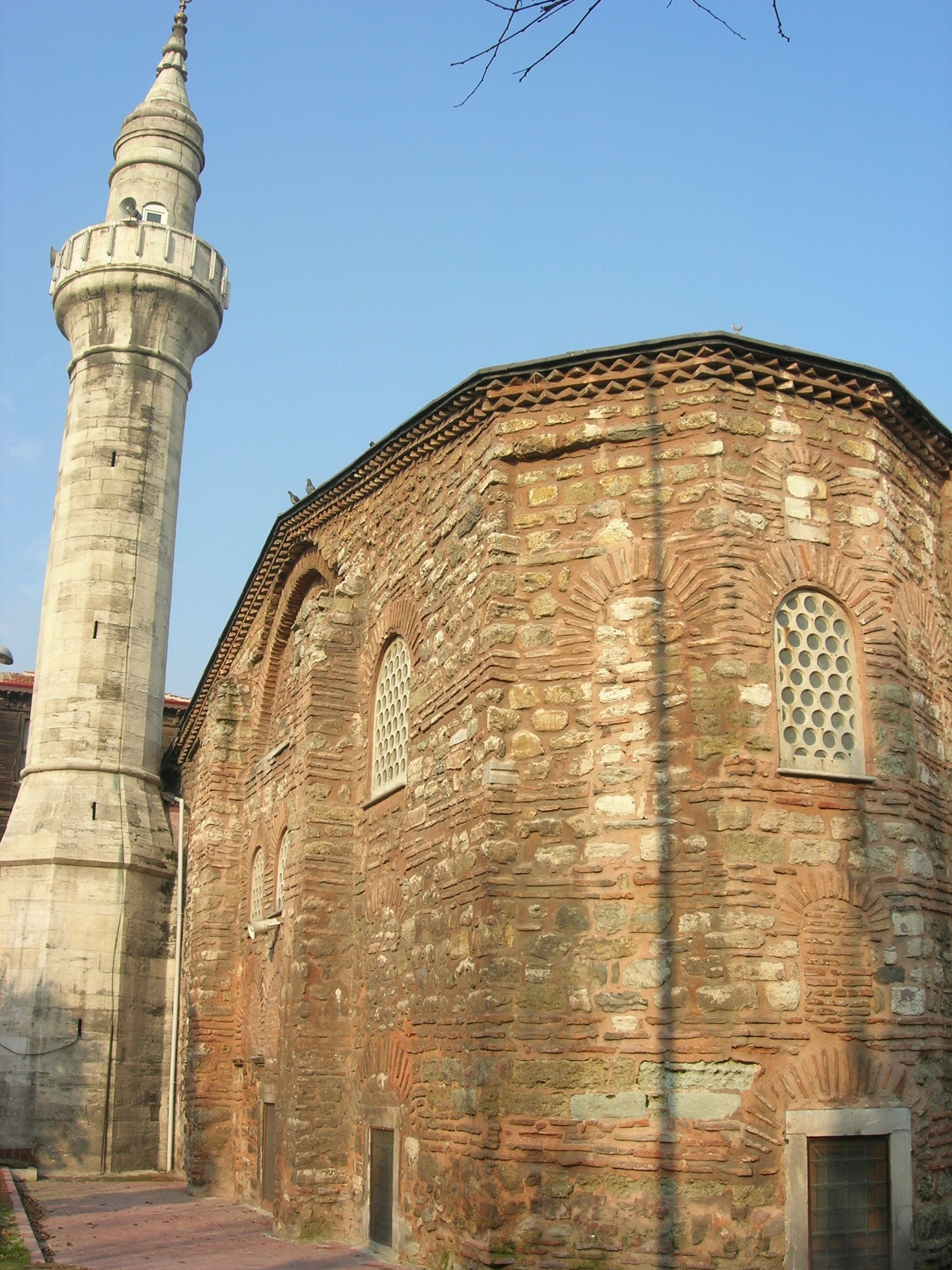 The SW side of the former Church of Agia Thekla (today mosque of Atik Mustafa Pasha) in Istanbul